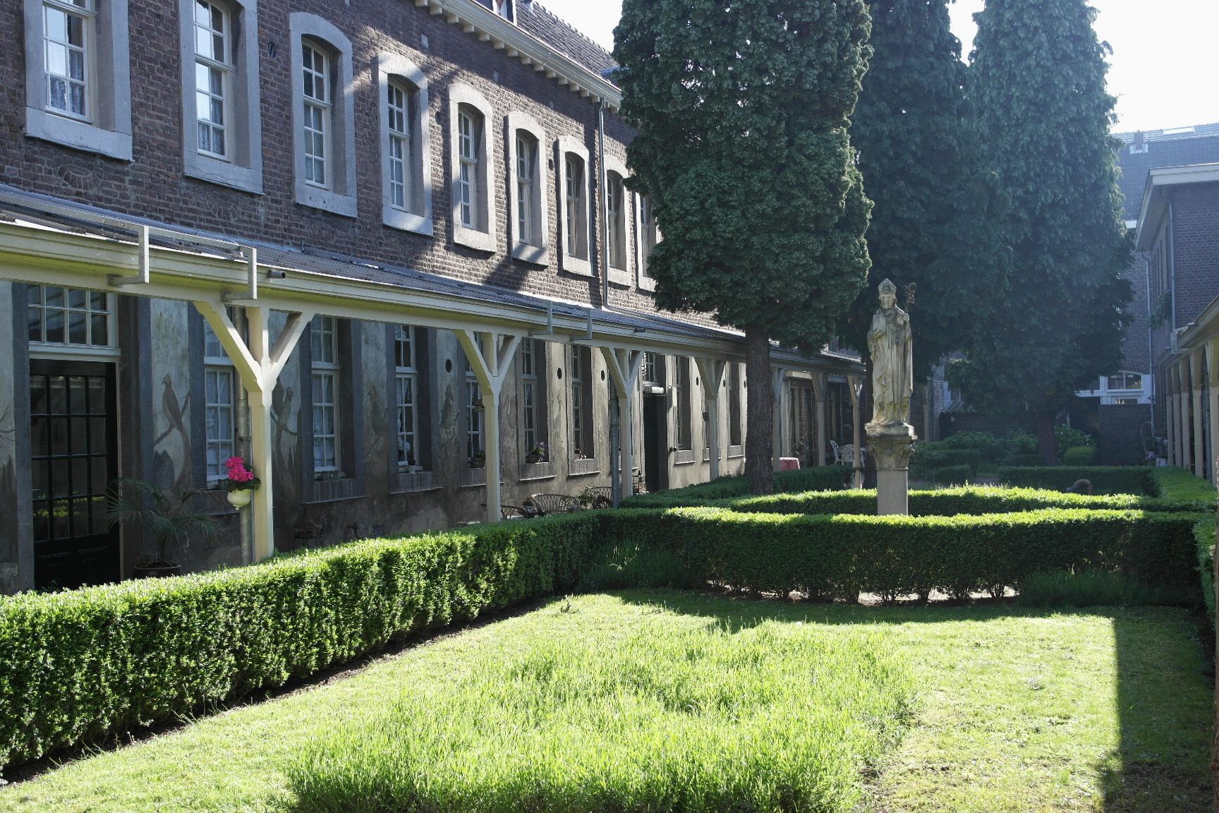 Maastricht, the Netherlands. Courtyard view of the so-called House of the Twelve Apostles, an alms house for the elderly, founded in 1493 in Bogaardenstraat in the central neighbourhood of Statenkwartier.